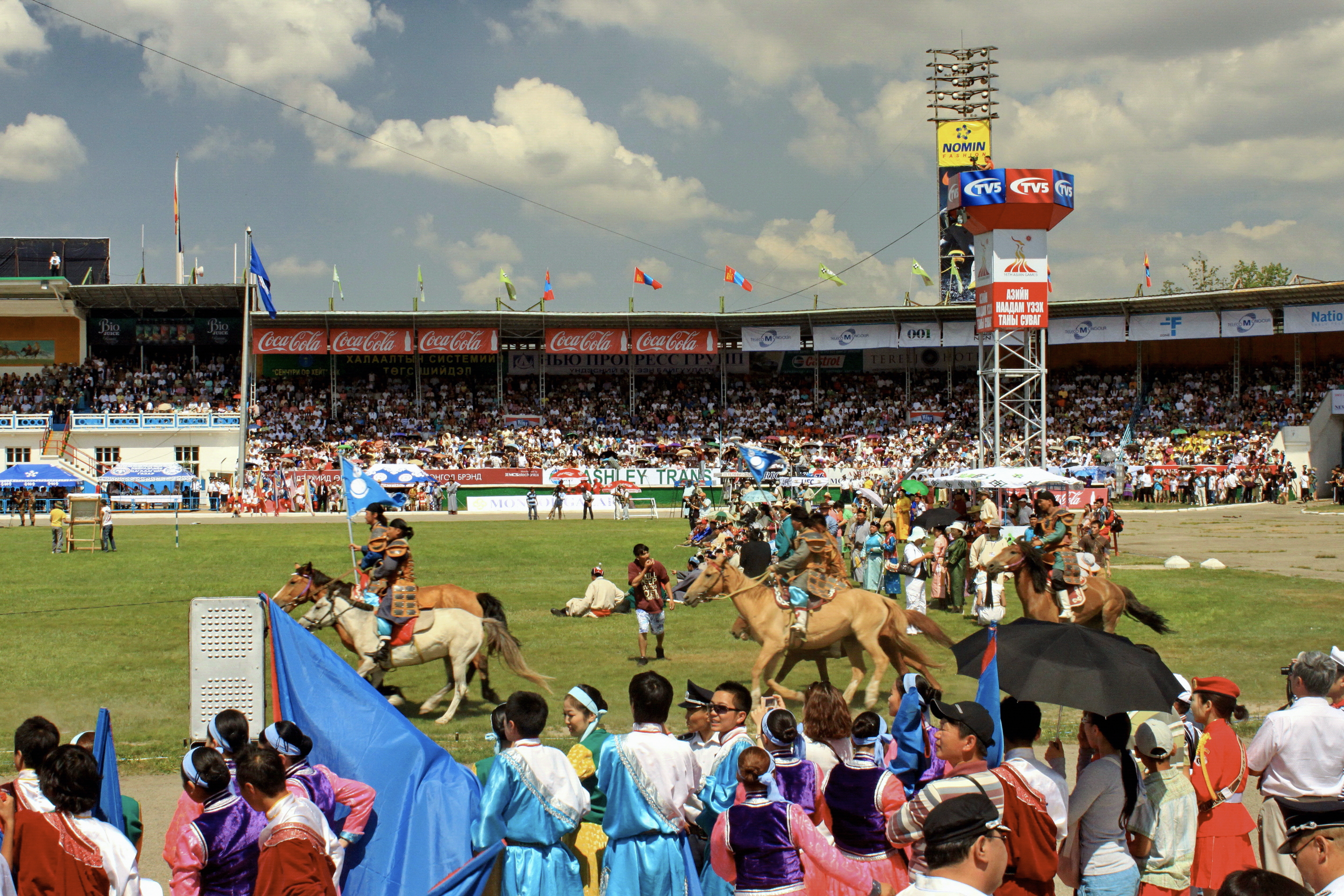 Naadam festival at the national stadium. Ulan Bator, Mongolia.